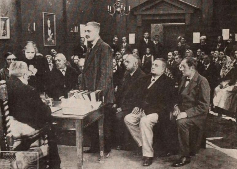 Still from the Swedish film Tösen från Stormyrtorpet (1917), released in the U.S. as The Girl from the Marsh Croft, The Lass from the Stormy Croft, and The Woman He Chose (U.K. title), on page 61 of the May 8, 1920 Exhibitors Herald.